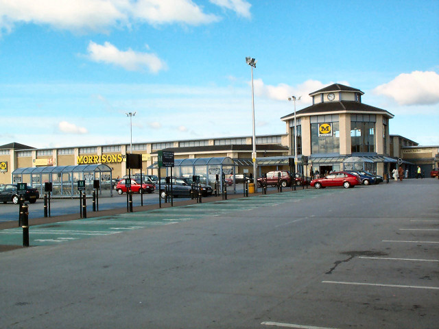 Morrisons Supermarket, Girlington, Bradford.